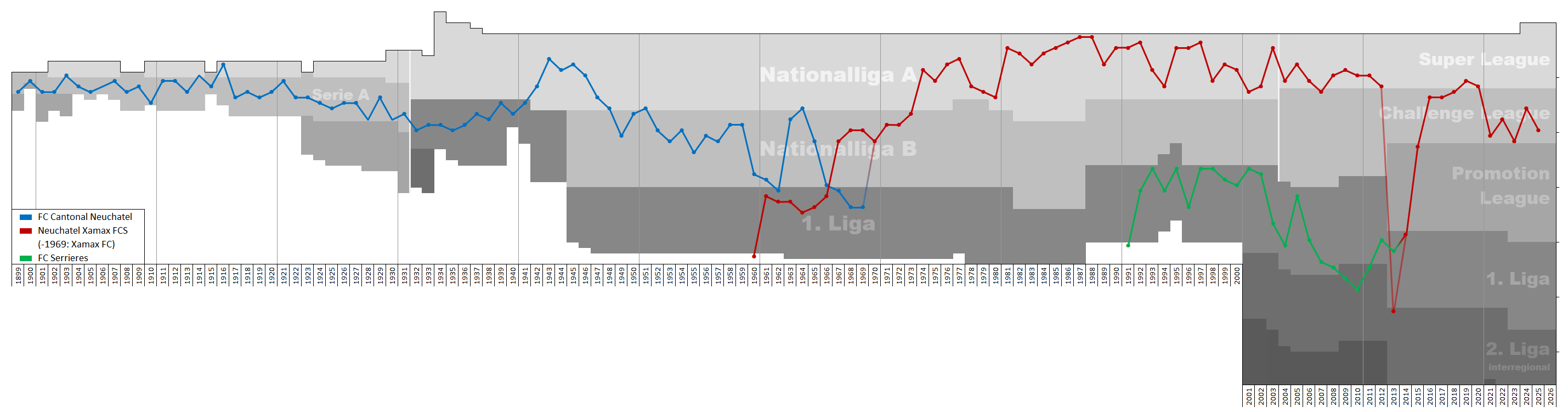 Chart of end-season table positions for Neuchatel Xamax FCS in the Swiss football league system. Data source: RSSSF, , al-la.ch